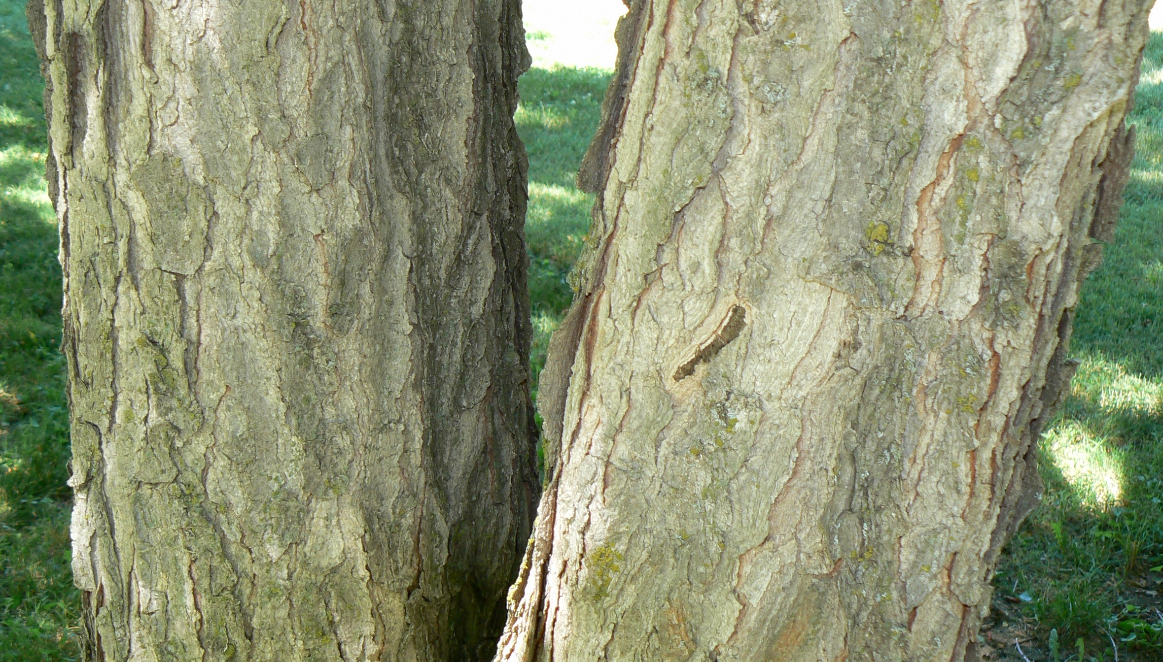 Bark of Kentucky Coffeetree at DeSoto National Wildlife Refuge